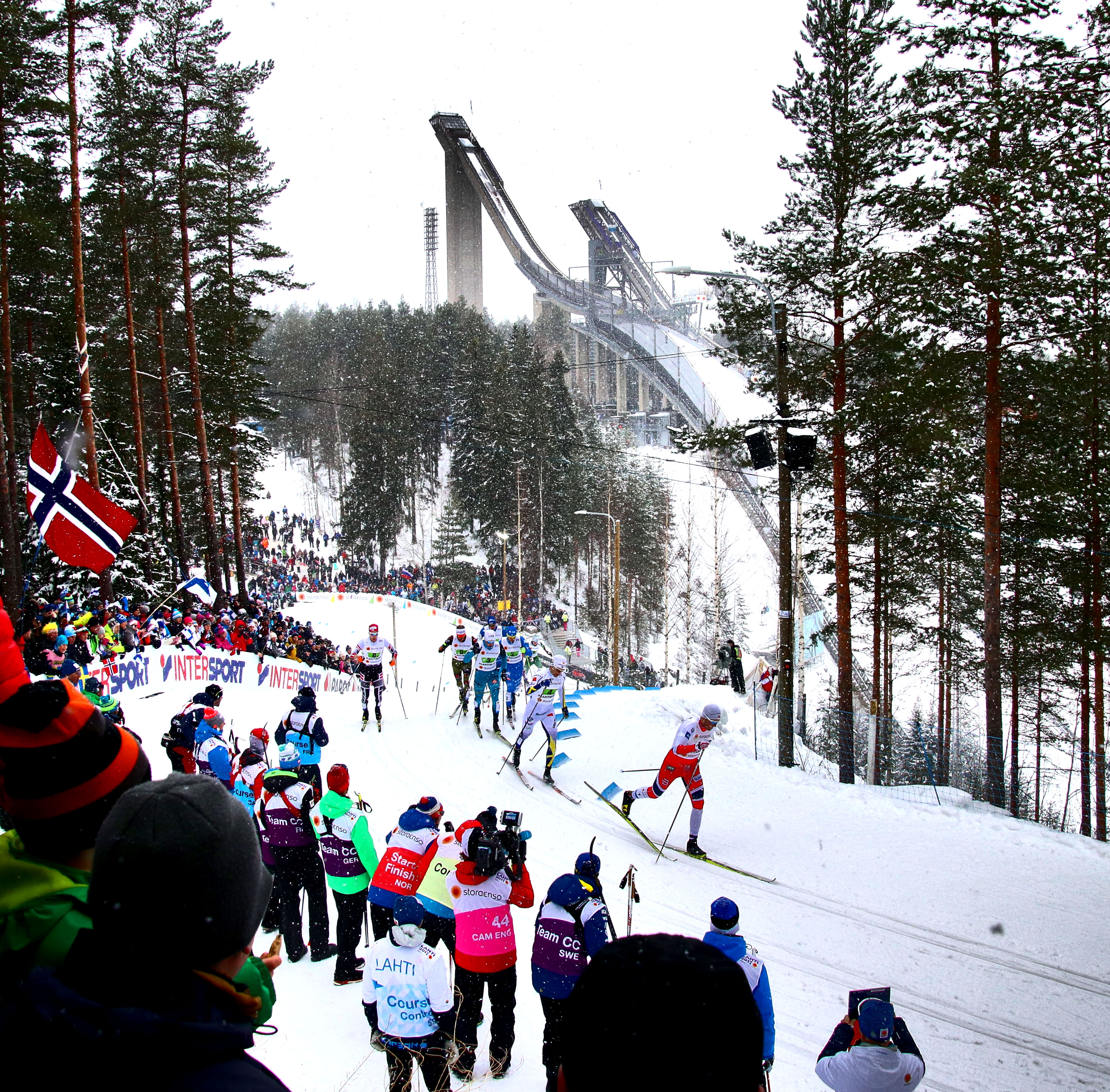 Lahti. At the cross-country skiing world championships.